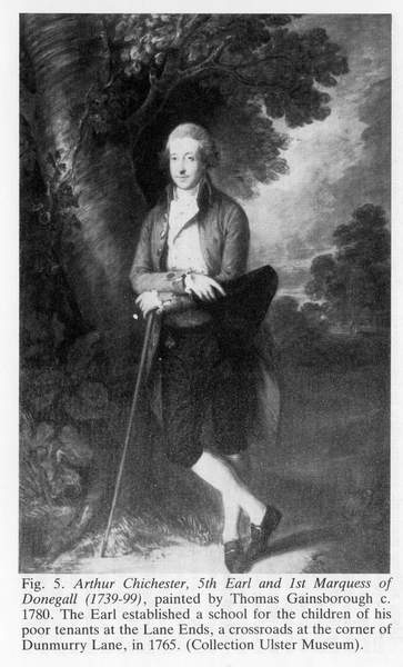 Arthur Chichester, 1st Marquess of Donegall (1739-1799)